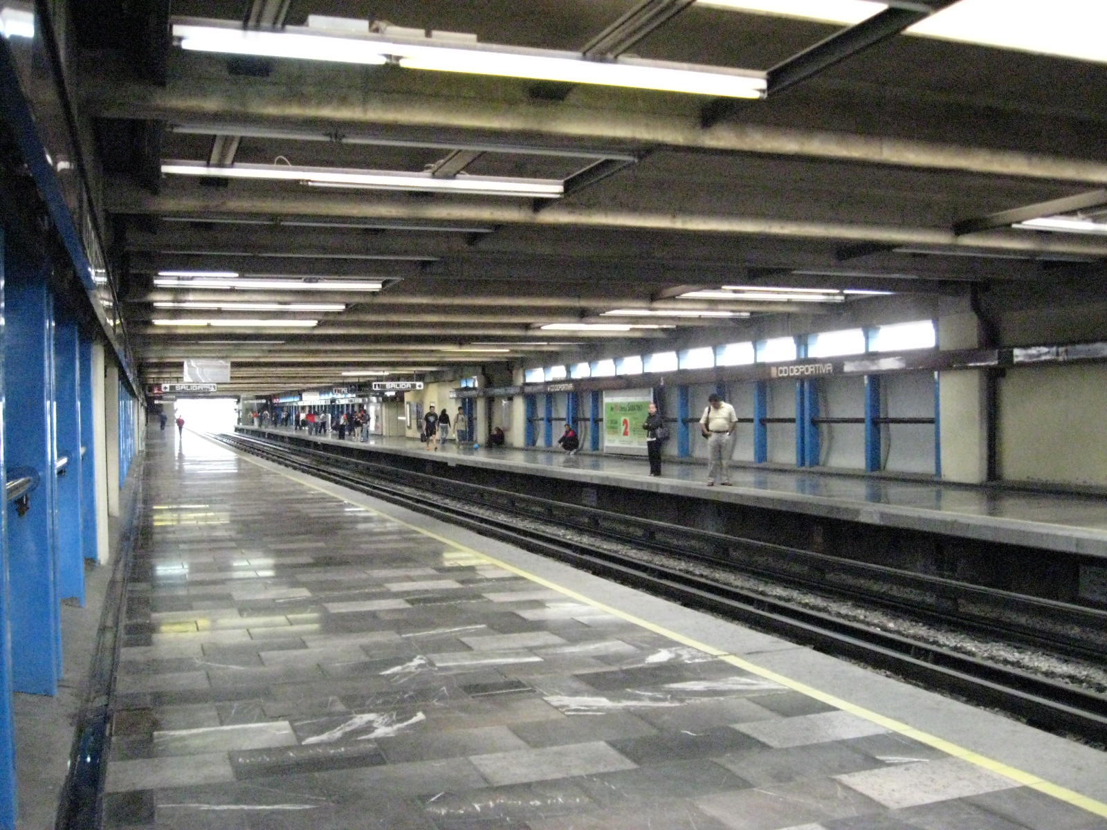 View of the eastbound platform of Metro station Ciudad Deportiva on Line 9 of the Mexico City Metro system